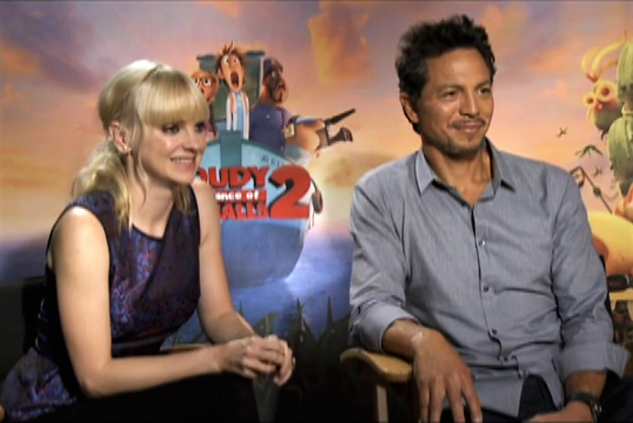 CLOUDY WITH A CHANCE OF MEATBALLS 2 Interview: Benjamin Bratt and Anna Faris by Dulce Osuna